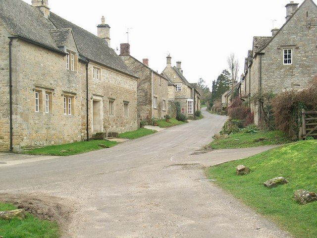 A view of Fifield, Oxfordshire